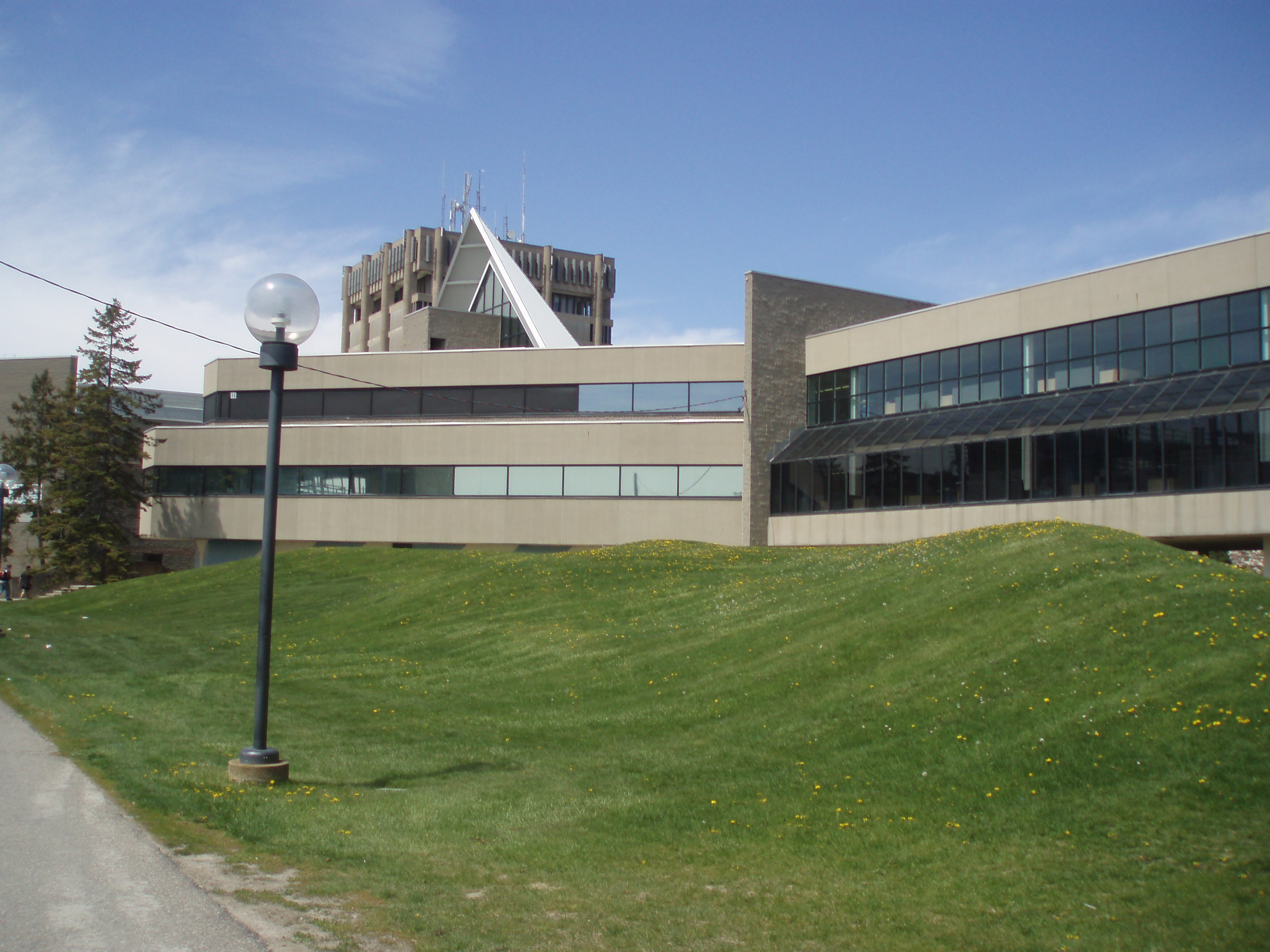 view of MacChenzie block and the tower at Brock University from the outside